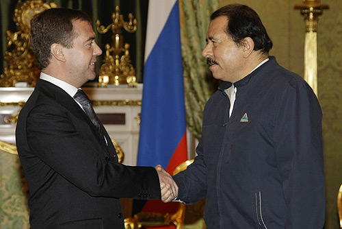 GRAND KREMLIN PALACE, MOSCOW. With President of the Republic of Nicaragua Daniel Ortega Saavedra.